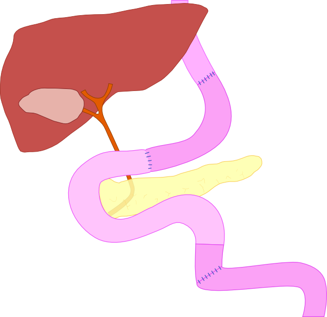 simple diagram of total gastrectomy with jejunal_interposition